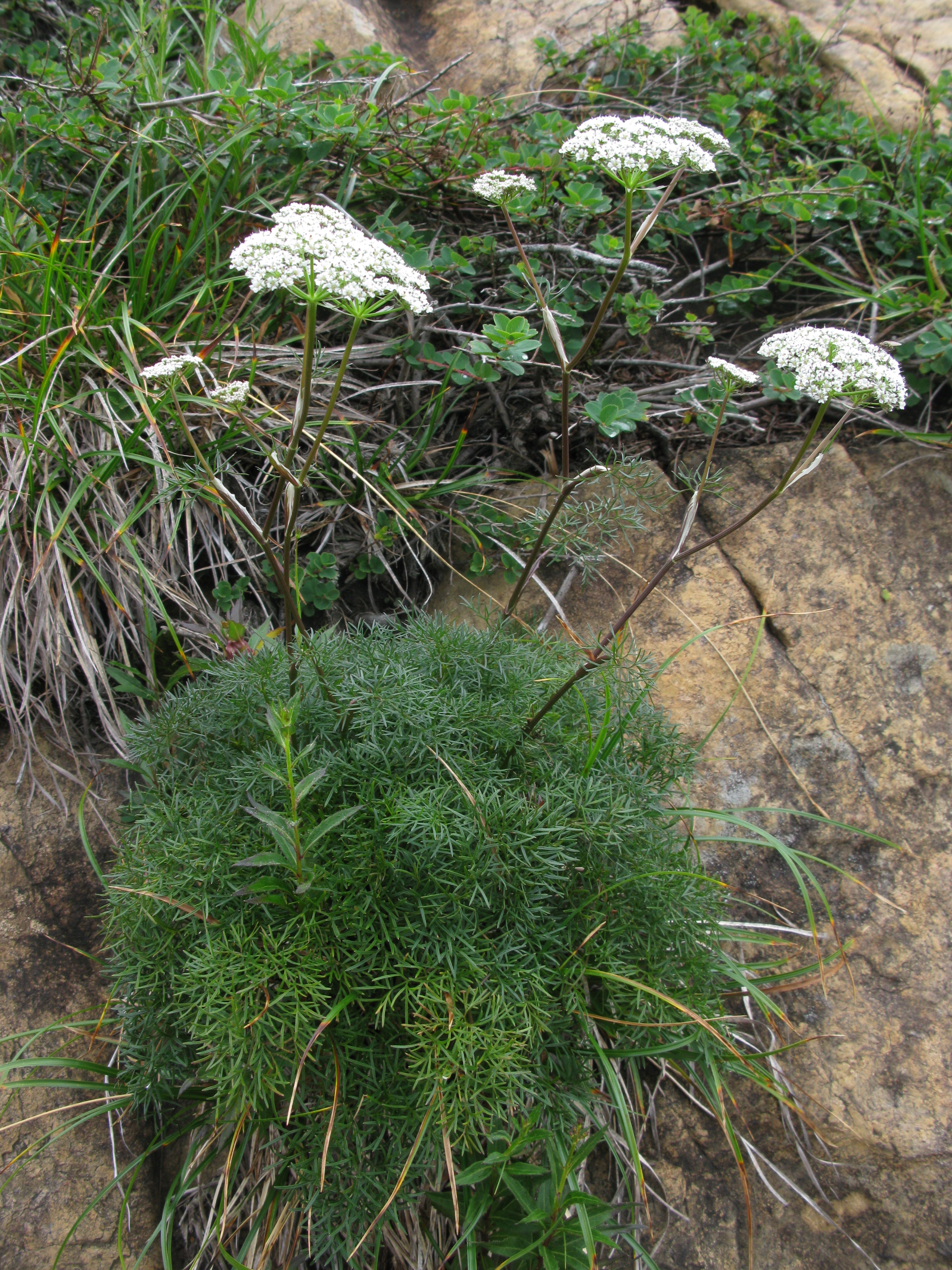 Tilingia tachiroei, Mount Shibutsu, Gunma pref., Japan